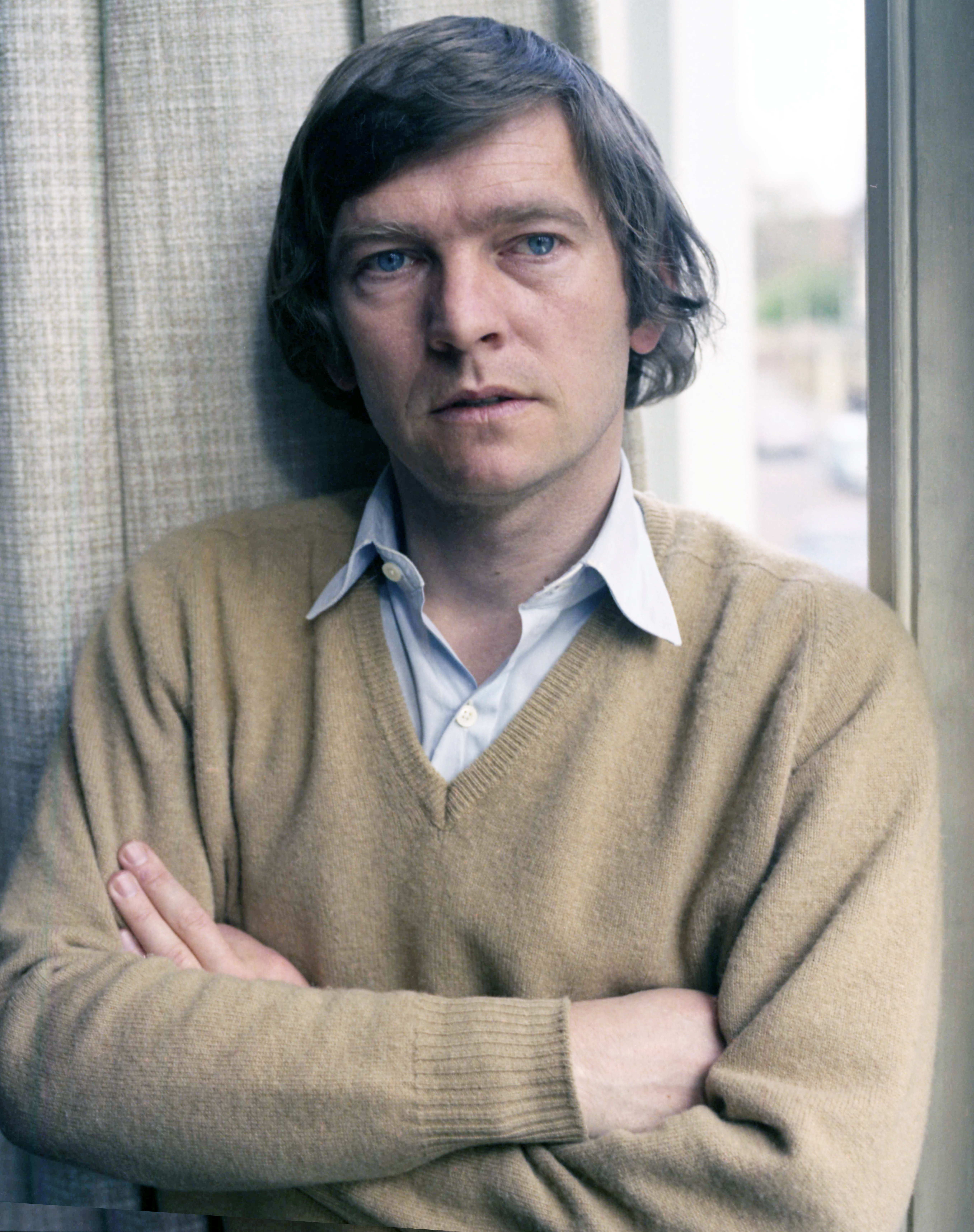 Sir Tom Courtenay taken in his home in London